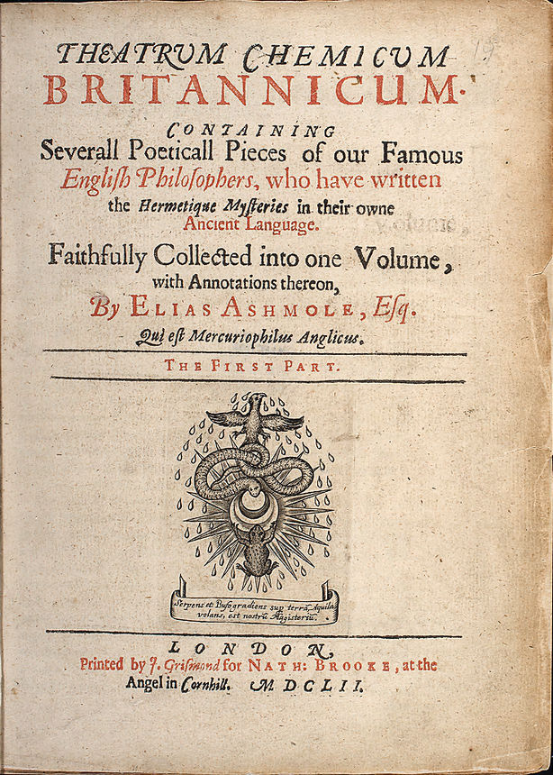 Cover (page A1r) of Theatrum Chemicum Britannicum (1652), a compilation of alchemical poems in English by Elias Ashmole. Downloaded from on 21 July 2005.